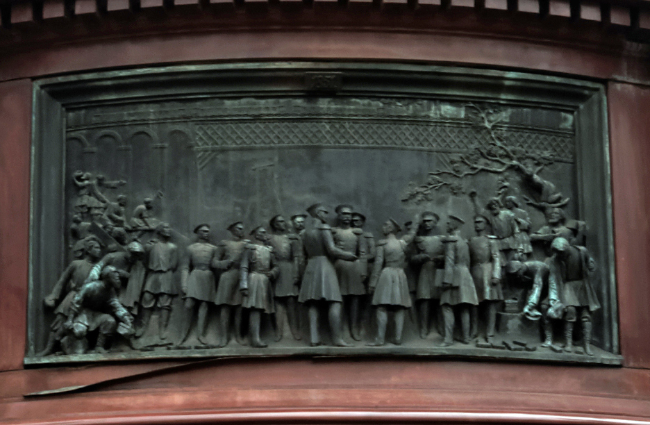 Opening of Вере́бьинский мост - Veréb'inskiy most 1852 by the Czar - Part of Saint Petersburg Moscow Railway